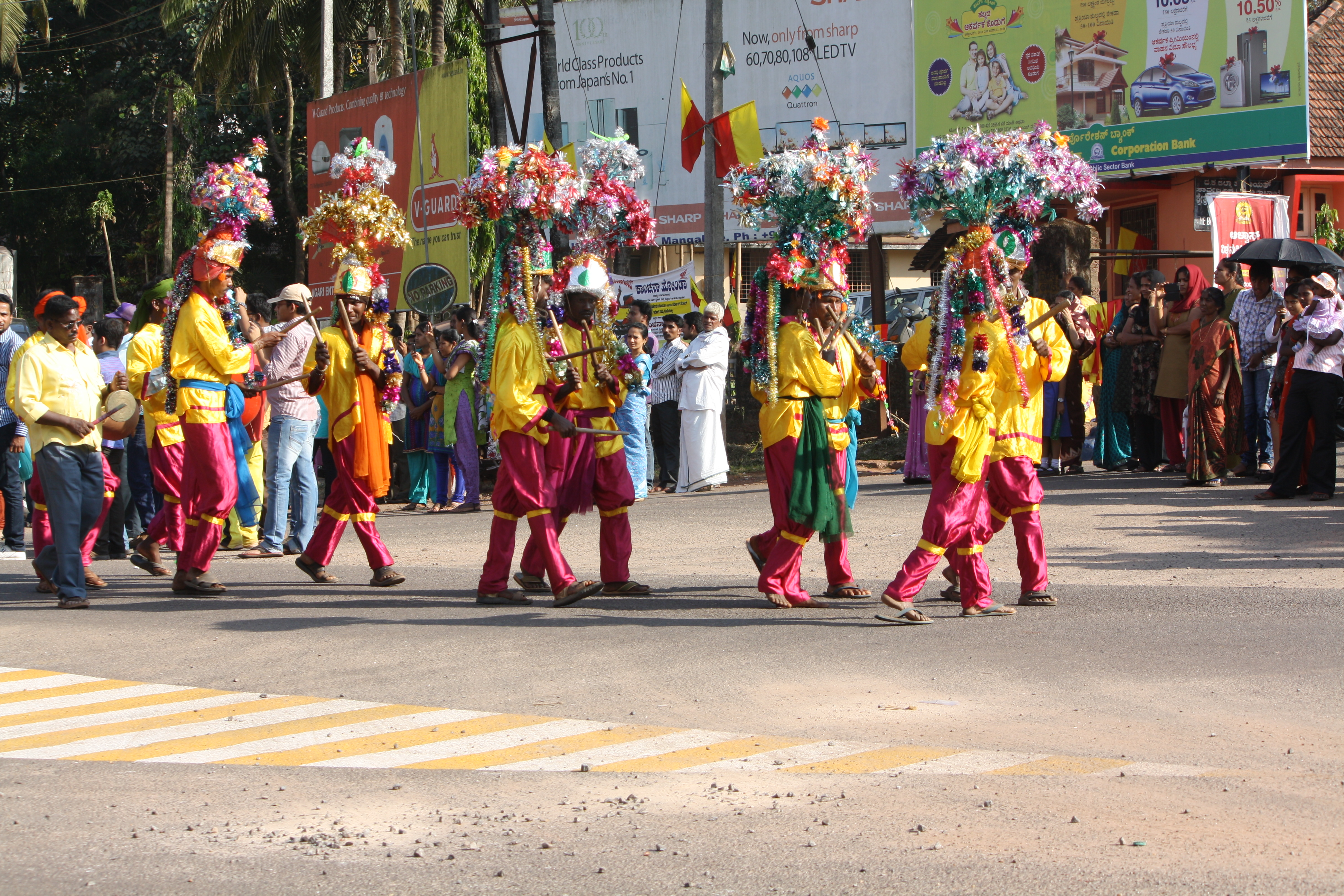 Halakki Suggi Kunitha, a kind of folk performance from Karnataka, India ಕನ್ನಡ: ಕರ್ನಾಟಕದ ಜಾನಪದ ಕಲೆ ಹಾಲಕ್ಕಿ ಸುಗ್ಗಿ ಕುಣಿತ